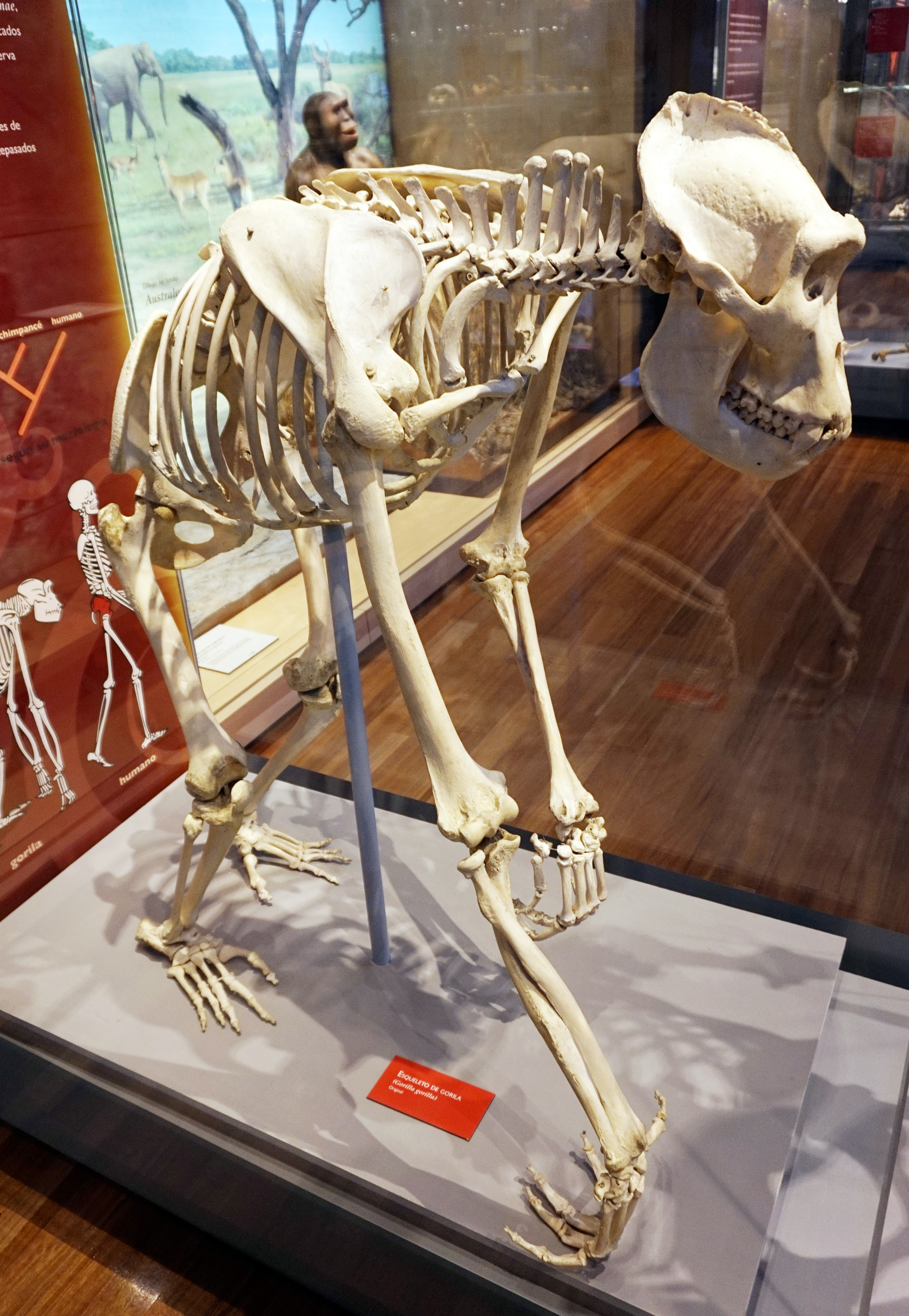 Skeleton of gorilla in National Museum of Natural Sciences of Spain